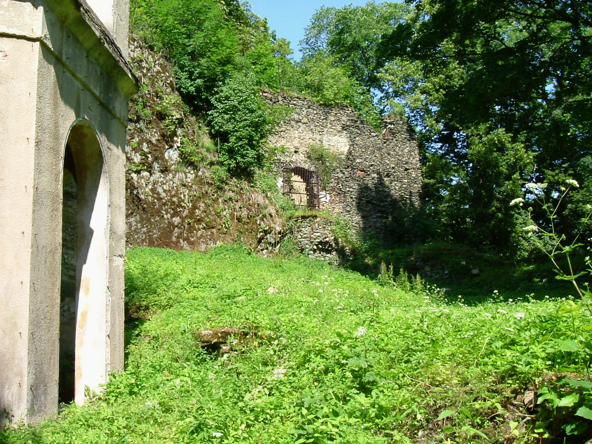 Courtyard of what once was Castle Niesytno